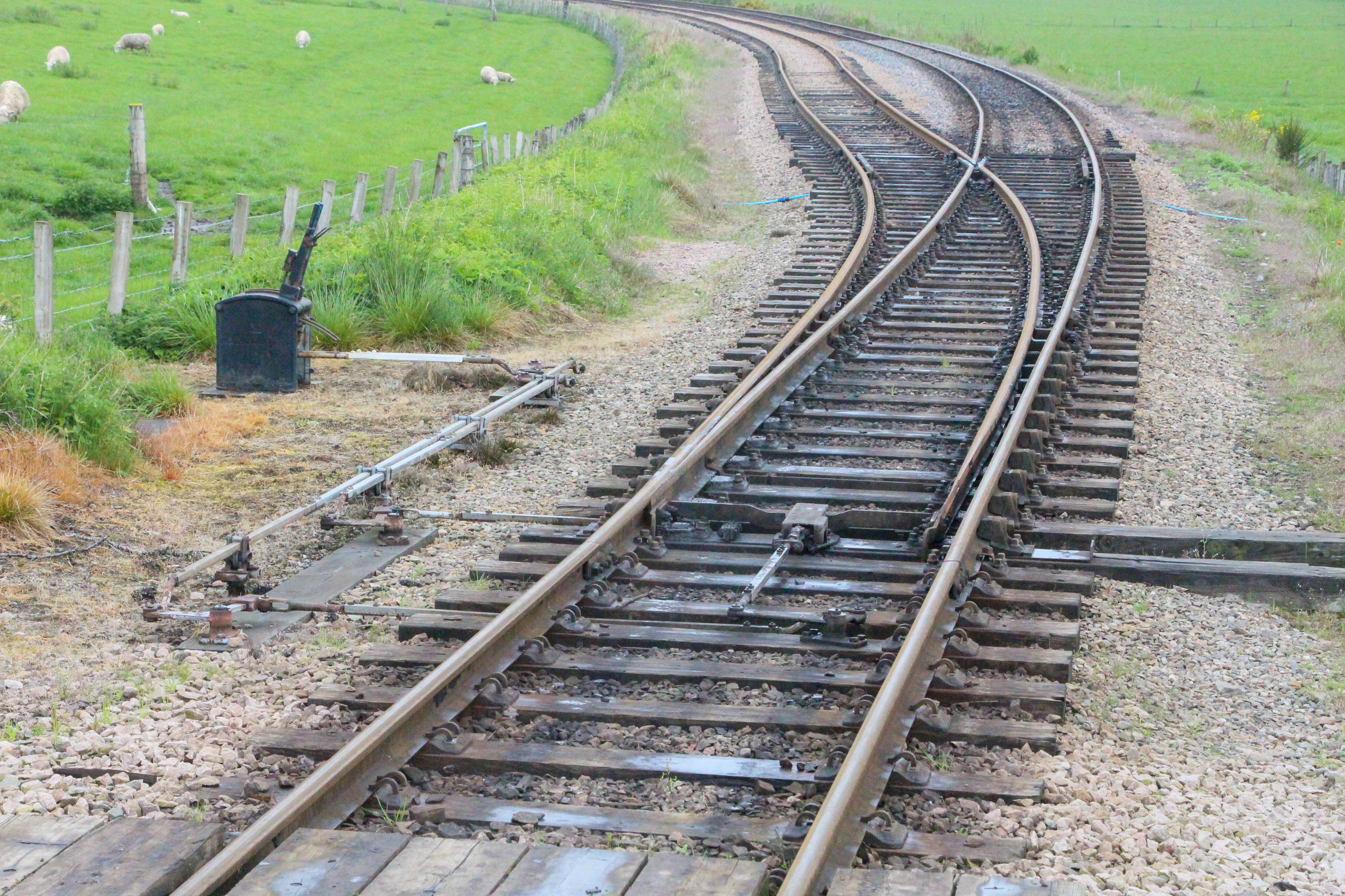 A set of points with facing point lock and two-lever frame at Broomhill station on the Strathspey Railway, Scotland